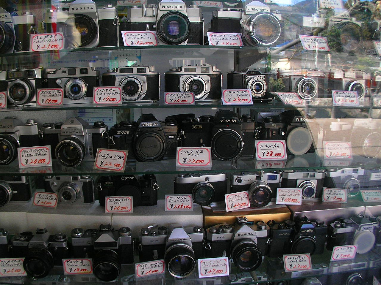 "Second-hand cameras" (auto-translated from Japanese)